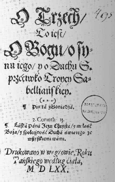 Cover page of Piotr of Goniadz' "O trzech, to jest o Bogu, o Synu jego i o Duchu ś. przeciwko Trójcy sabelliańskiej" published 1570